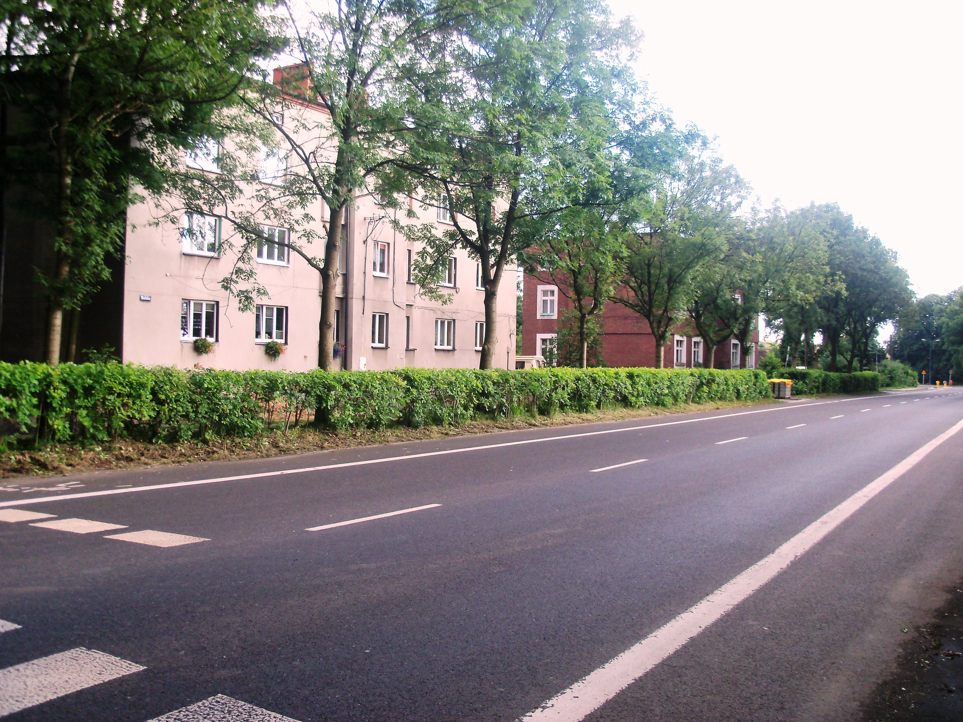 Bielska Street in Katowice